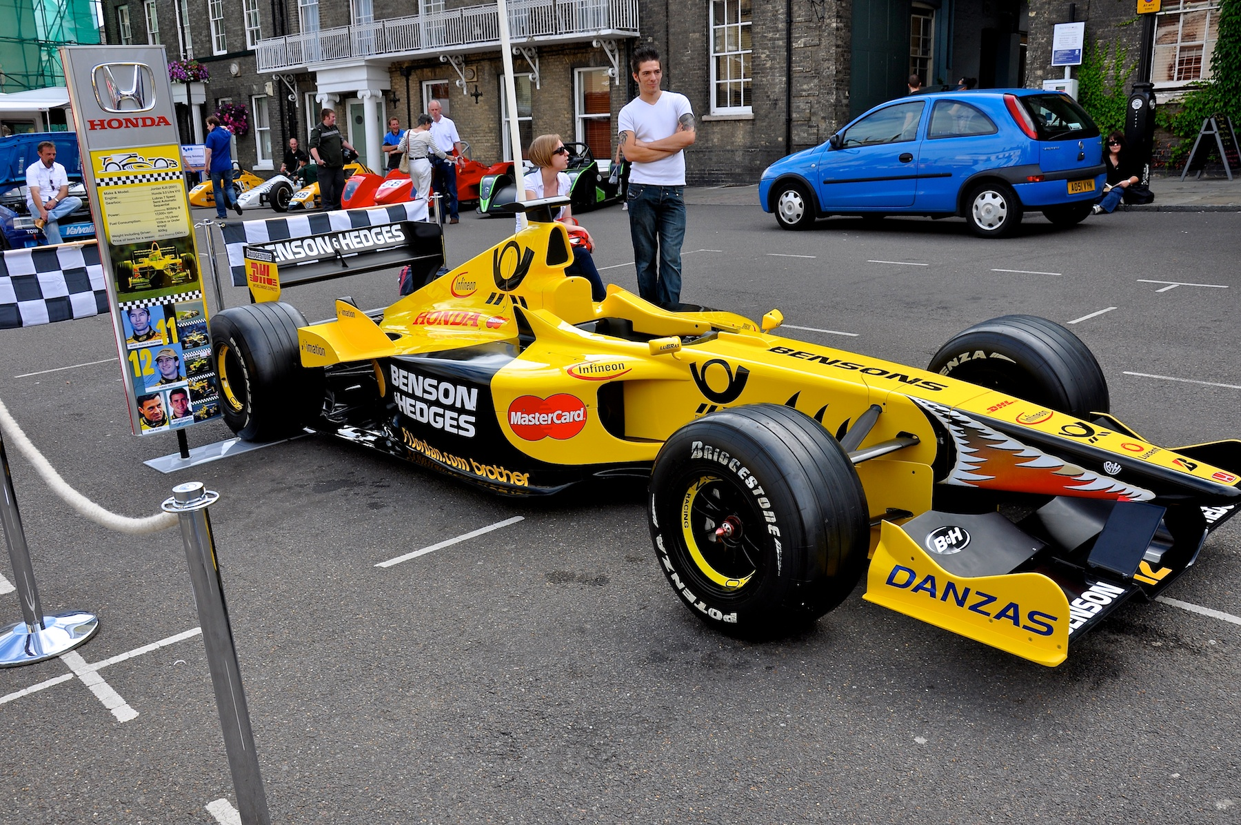 Jordan EJ11 exposed at the 2010 Bury St Edmunds Motorsports Show